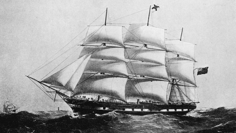 The Blackwall Frigate Suffolk in 1860. The Suffolk made the run to Melbourne in 70 days. She was broken up in 1892.